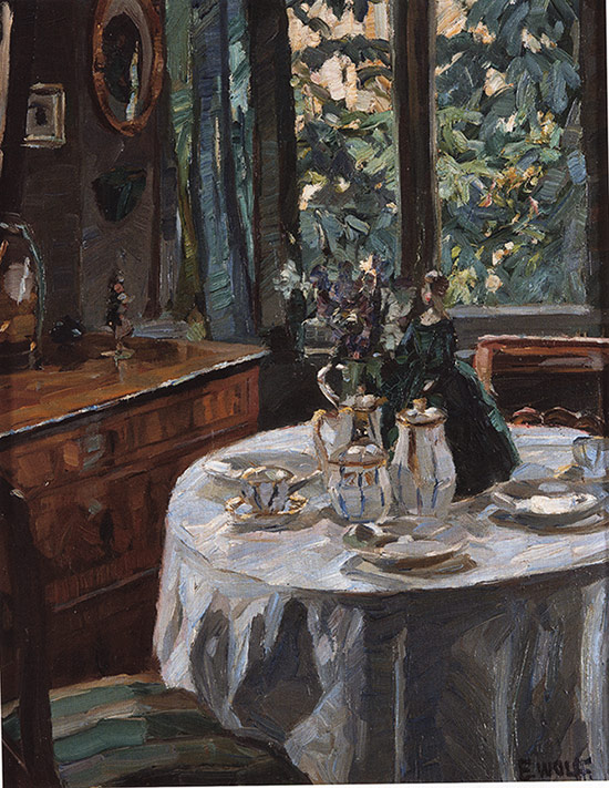 Frühstückstisch